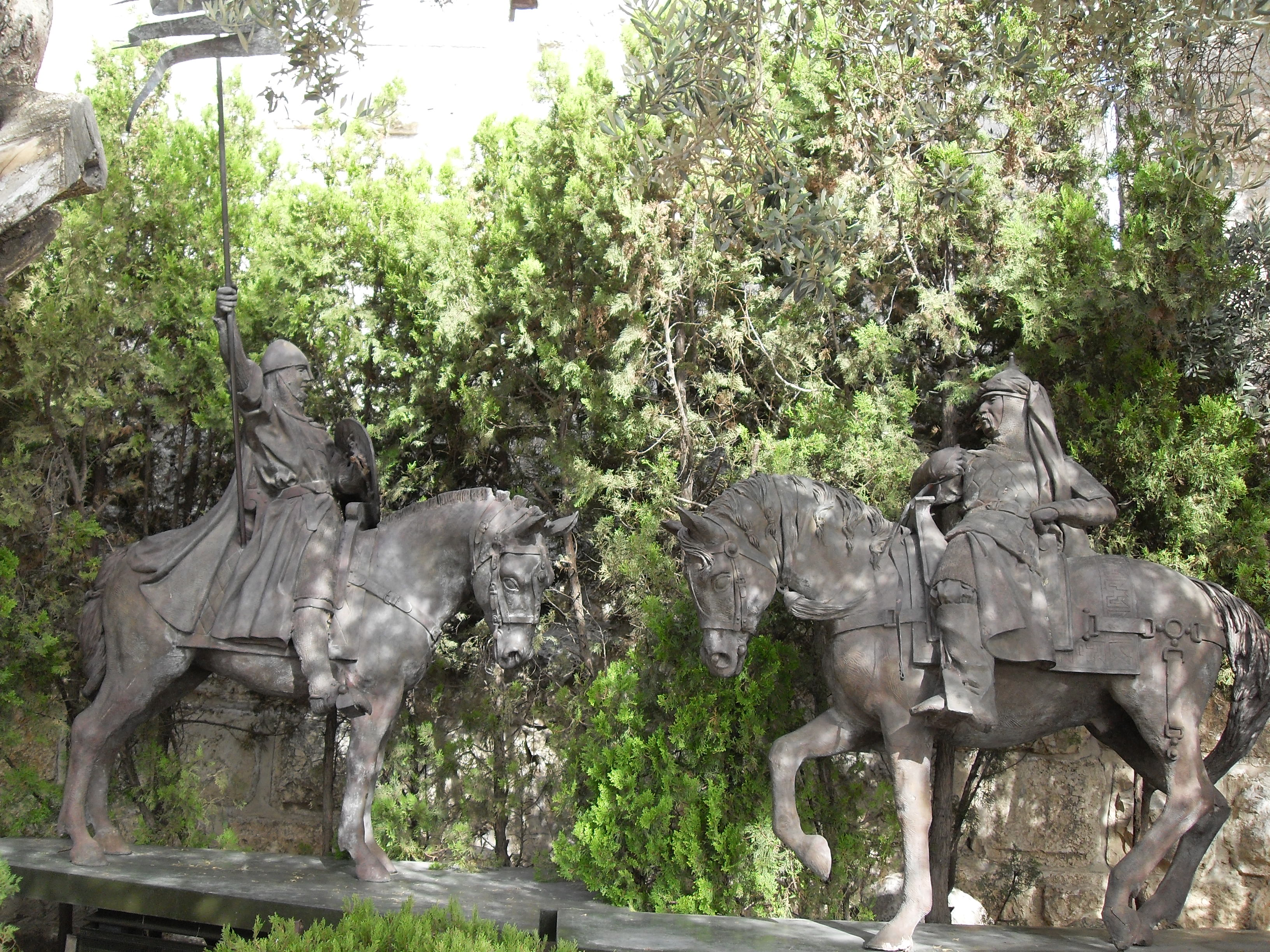 Old Jerusalem - Saladin and Richard the Lionheart, King of England, equestrian statue in front of David Citadel